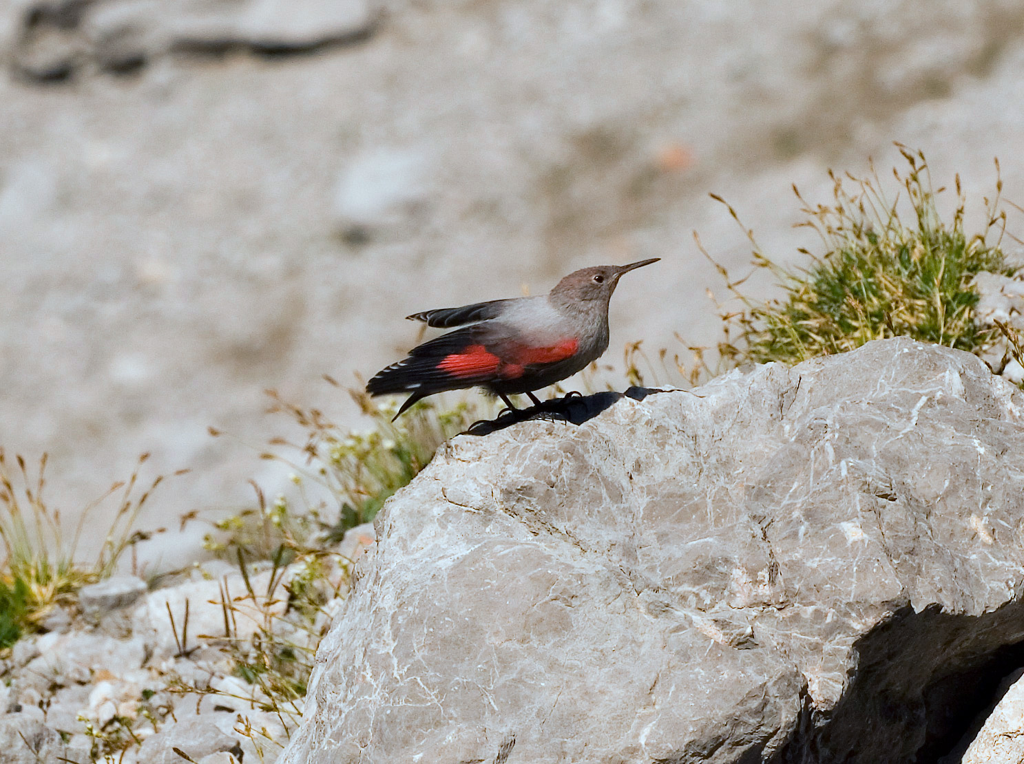 Wallcreeper